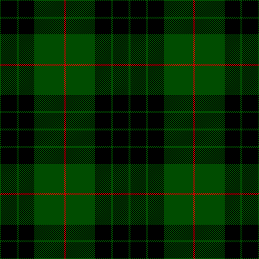 Gunn tartan, as published in the Vestiarium Scoticum. Modern thread count: G4 Bk32 G4 Bk32 G60 R4.